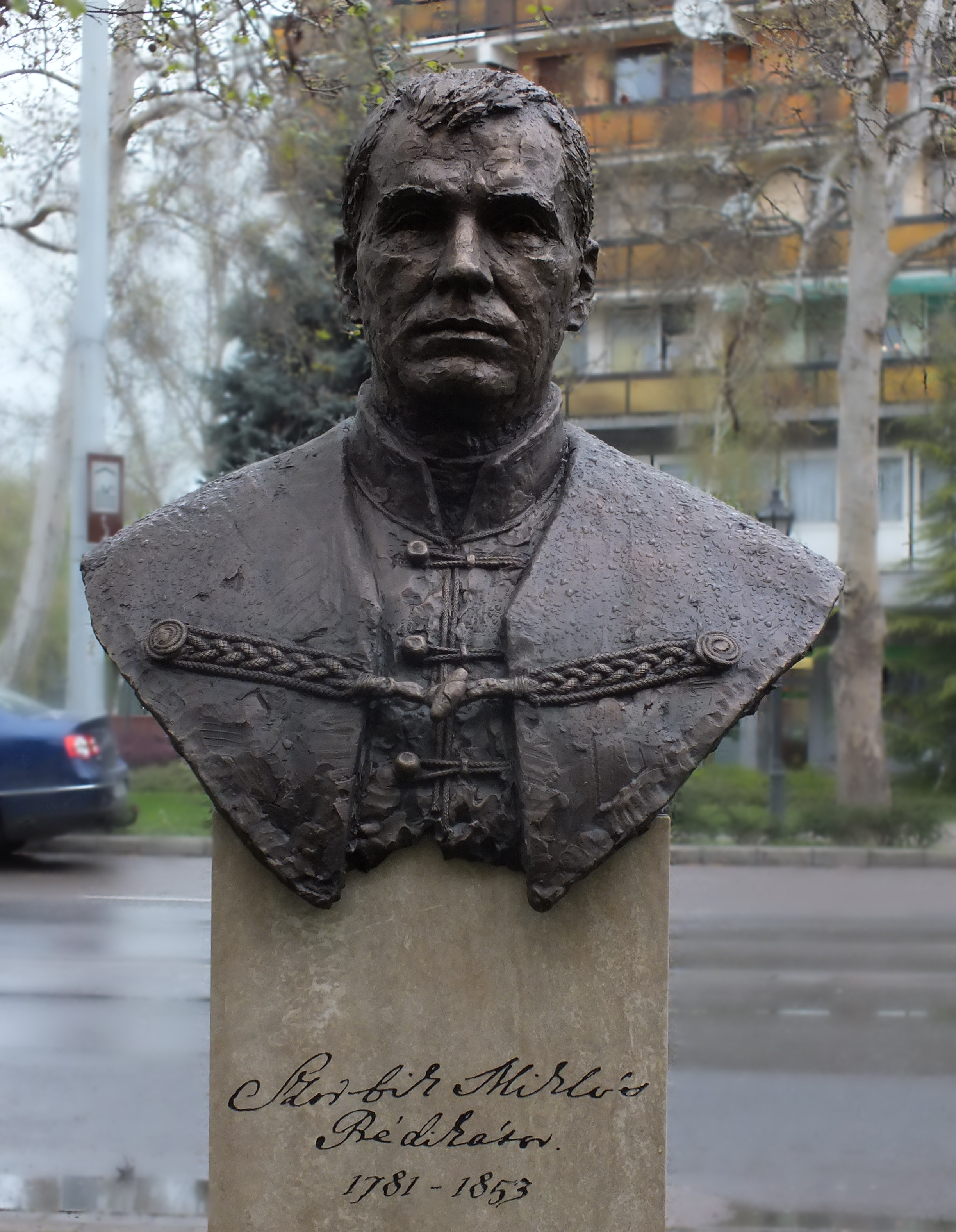 Statue of Miklós Szirbik in Makó, Hungary.